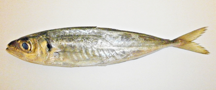 Mediterranean horse mackerel (Trachurus mediterraneus).